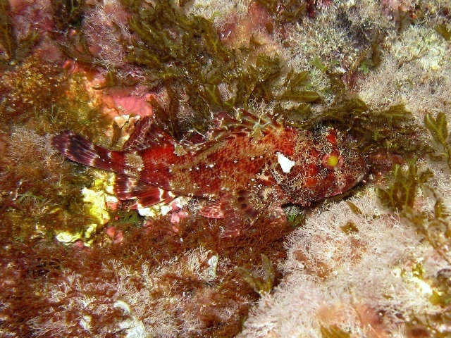 Scorpaena maderensis,Donoussa ,Greece.